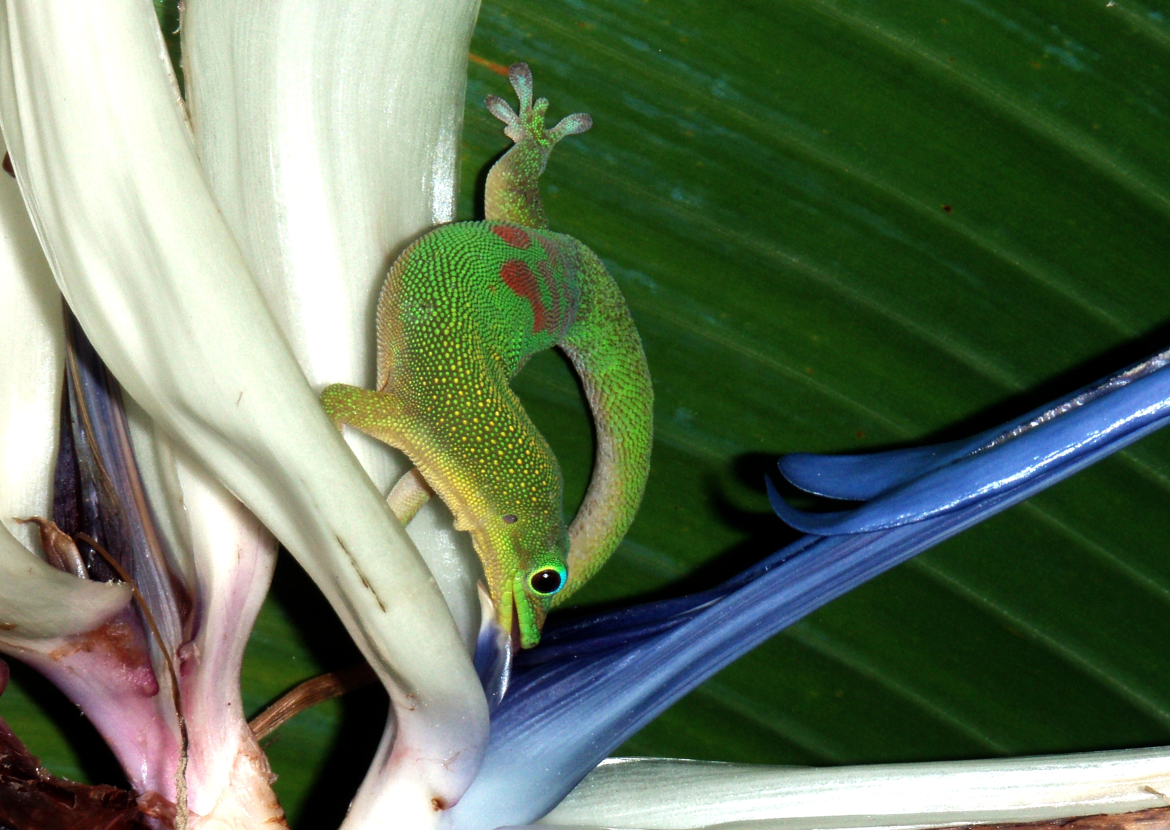 Gold dust day gecko is licking nectar from Bird of Paradise flower.